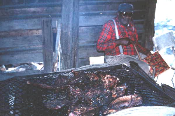 Local call number: fs821120 Title: [James Johnson barbecuing venison, beef, and pork on his pit: Lake City, Florida] Personal Author: Marshall, John, Fieldworker Physical descrip: 1 slide: col. Date: November 26, 1981 Series title: Folklife Collection Repository: 500 S. Bronough St., Tallahassee, FL 32399-0250 USA. Contact: 850.245.6700. Persistent URL